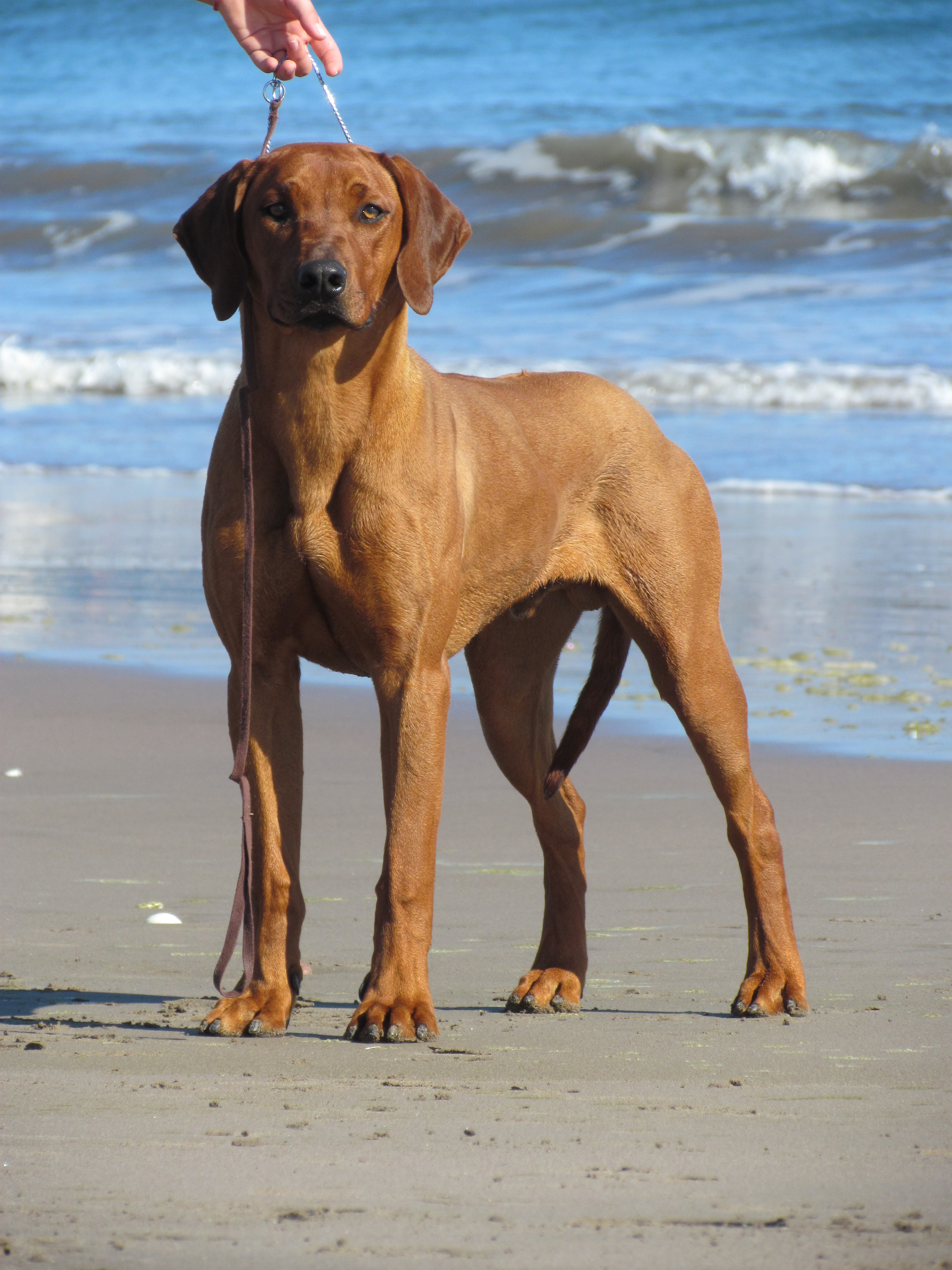 a10 month old male